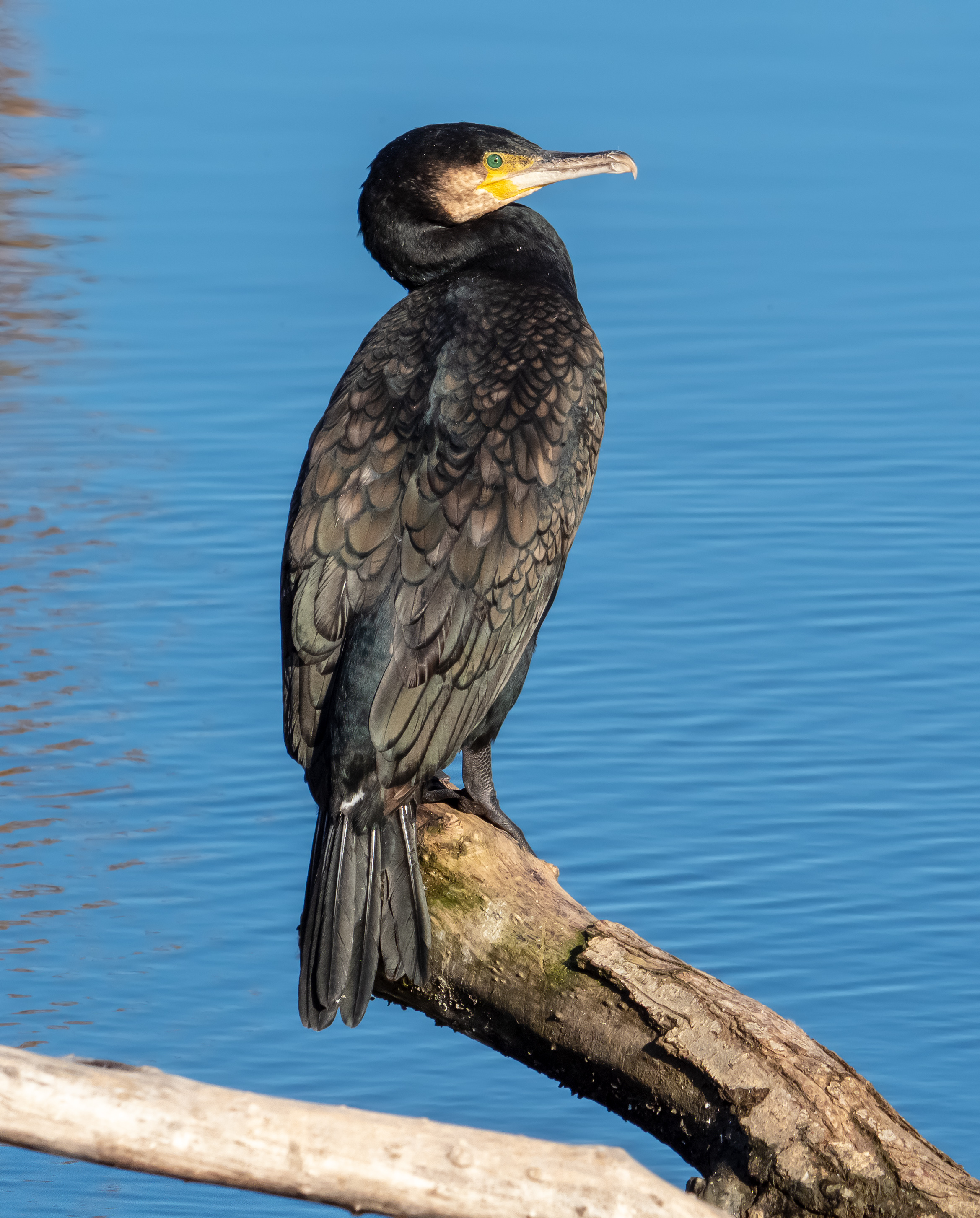 Cormorant on a branch above the Regnitz in Bamberg Bug